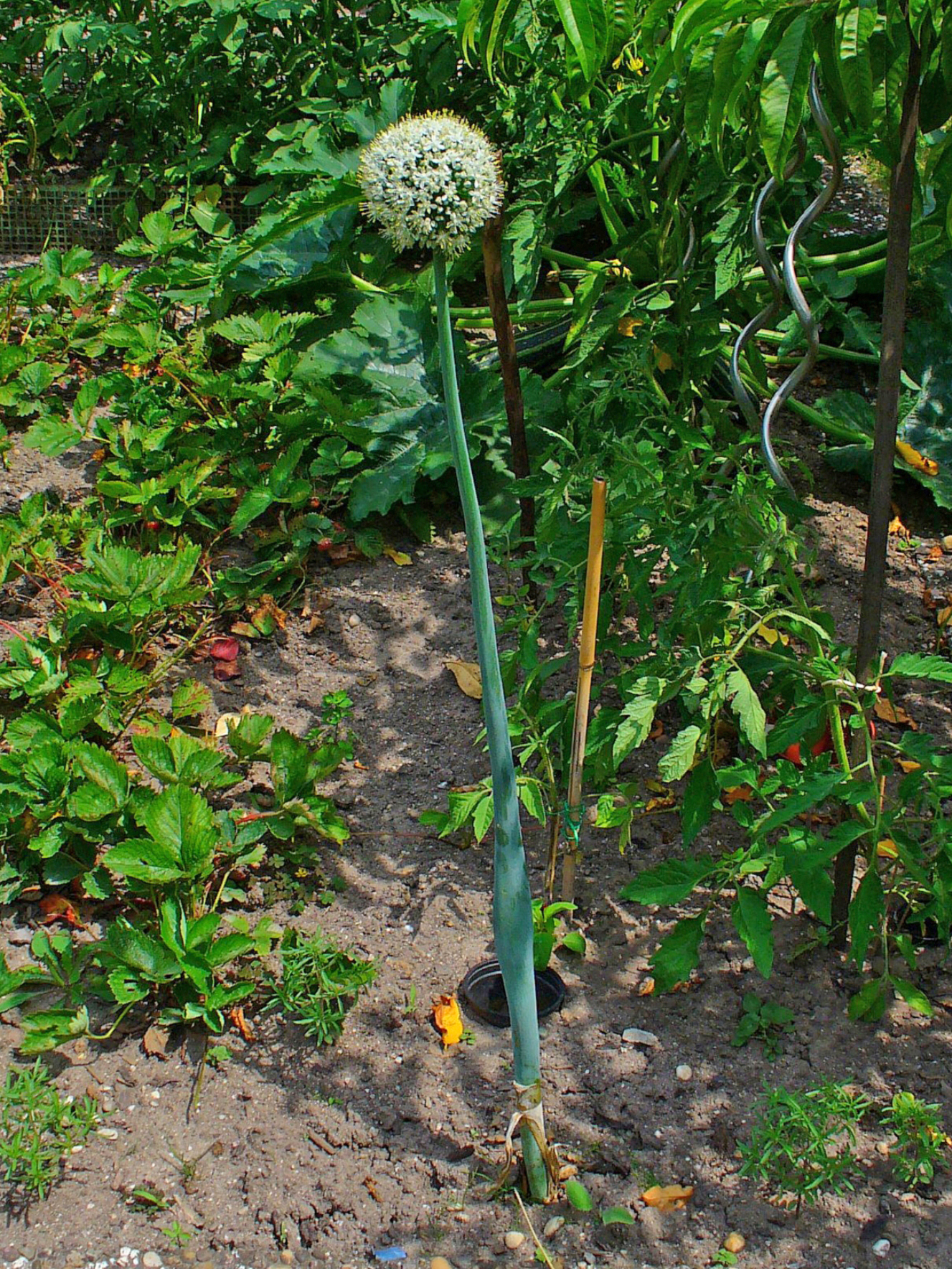 Allium cepa, Alliaceae, Garden Onion, habitus. Karlsruhe, Germany. The fresh bulbs are used in homeopathy as remedy: Allium cepa (All-c.)